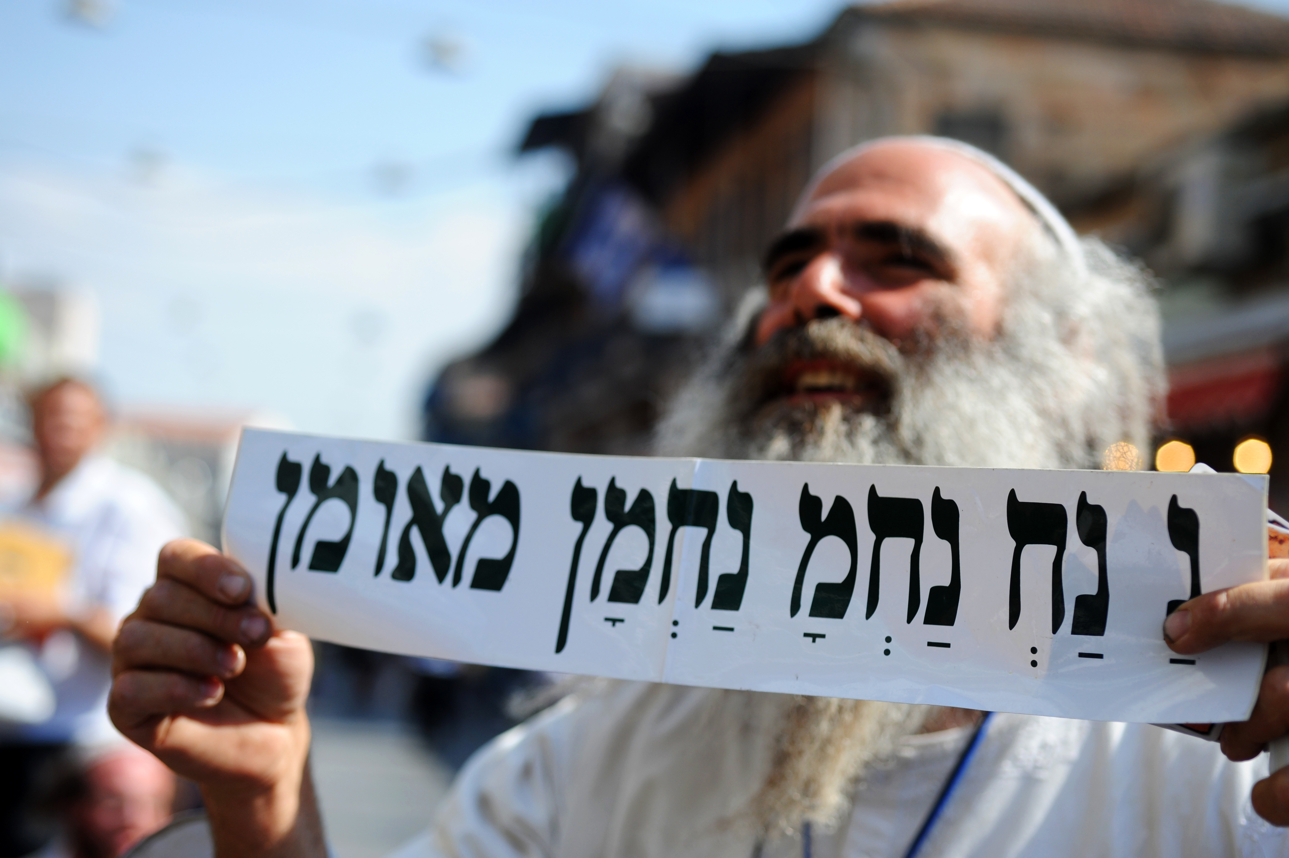 A man in the Mahane Yehuda Market, Jerusalem, is exuberant over the message presented. Stickers and literature are handed out free amidst jumping, dancing, and music.